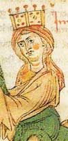 Constance of Sicily, Holy Roman Empress